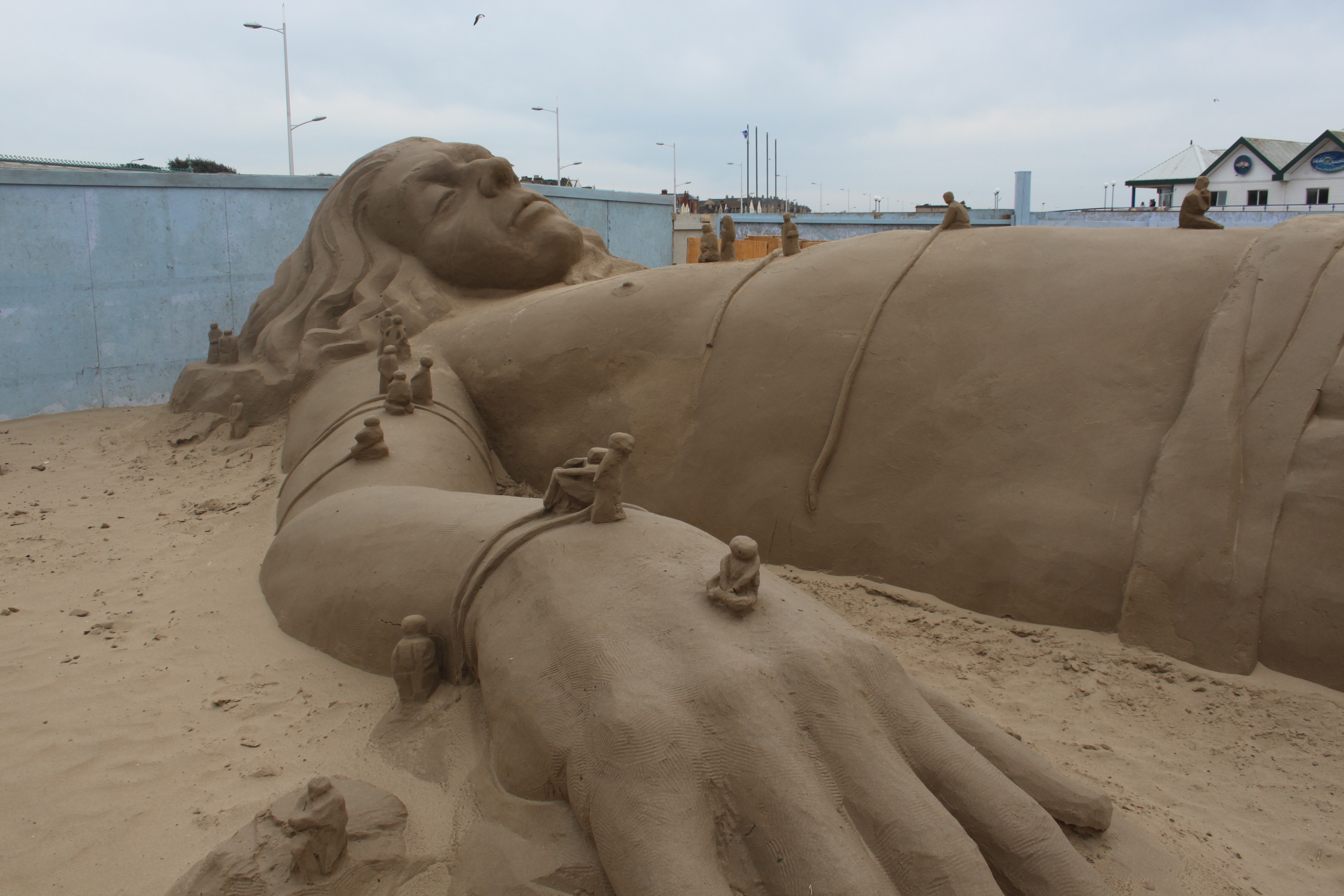 Sand Sculpture at Weston super Mare of Gulliver's Travels by Radek Zivny